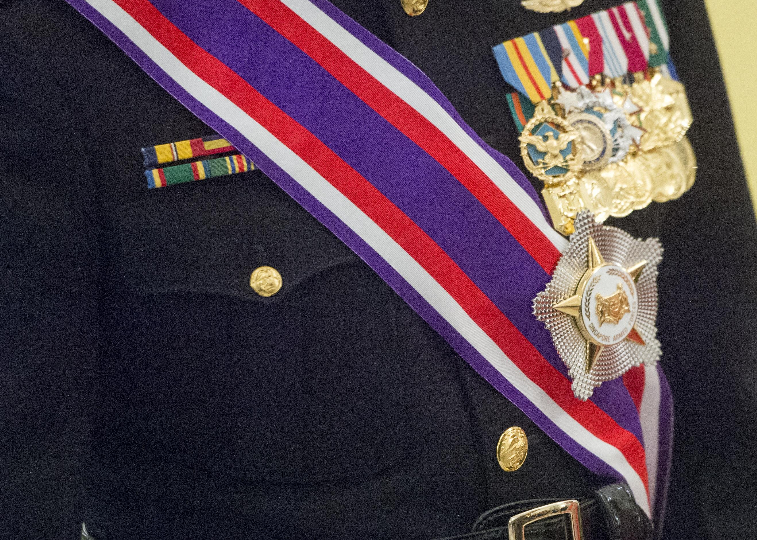 CJCS Dunford receiving an award from Singapore on June 2, 2017.